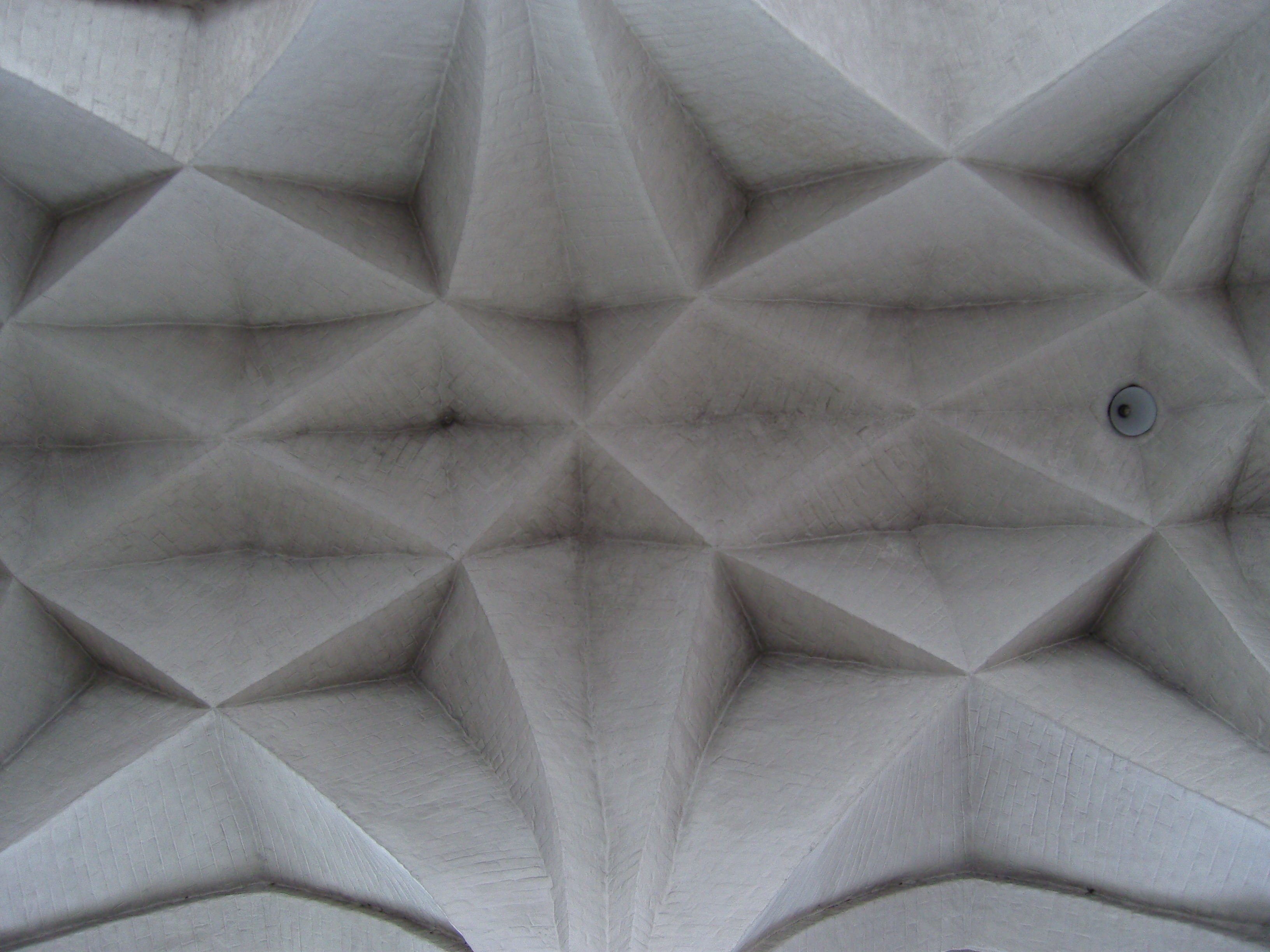 Vault in the Peter-and-Paul-Church in the German town Senftenberg. The netvault coveres the whole church, that's unique for churches in the Federal states in Brandenburg und Saxony.